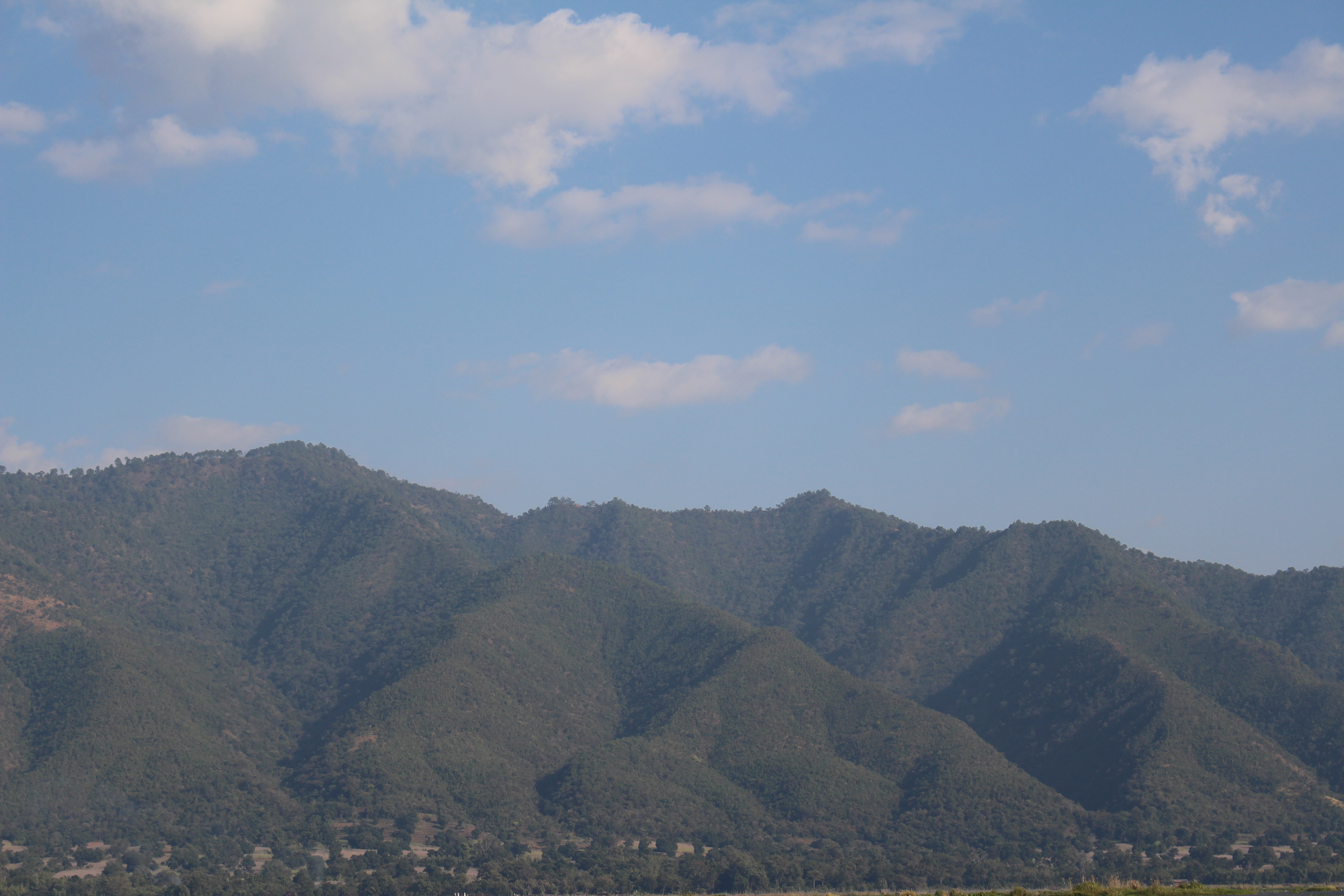 Shan Hills as seen from Inle Lakeမြန်မာဘာသာ: အင်းလေးကန်မှ မြင်ရသော ရှမ်းရိုးမ